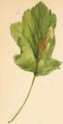 Stainton’s Natural History of the Tineina (1855–1873): Phyllonorycter mespilella mined leaf of Sorbus torminalis